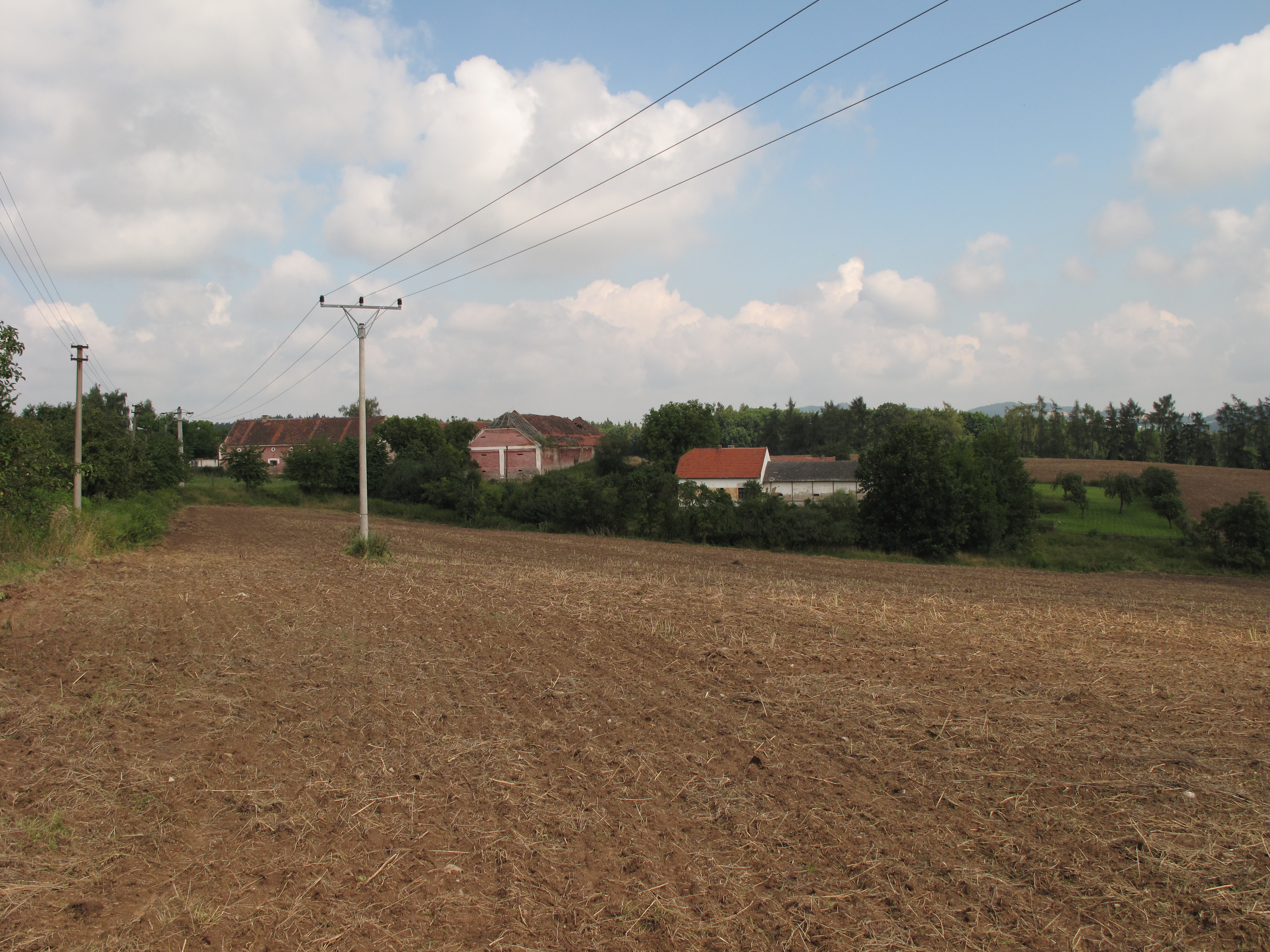 Červený Dvůr (Benešov) as seen from the south, Czech Republic.